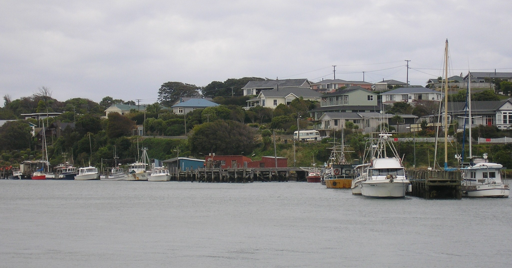 Looking down the Riverton harbour.